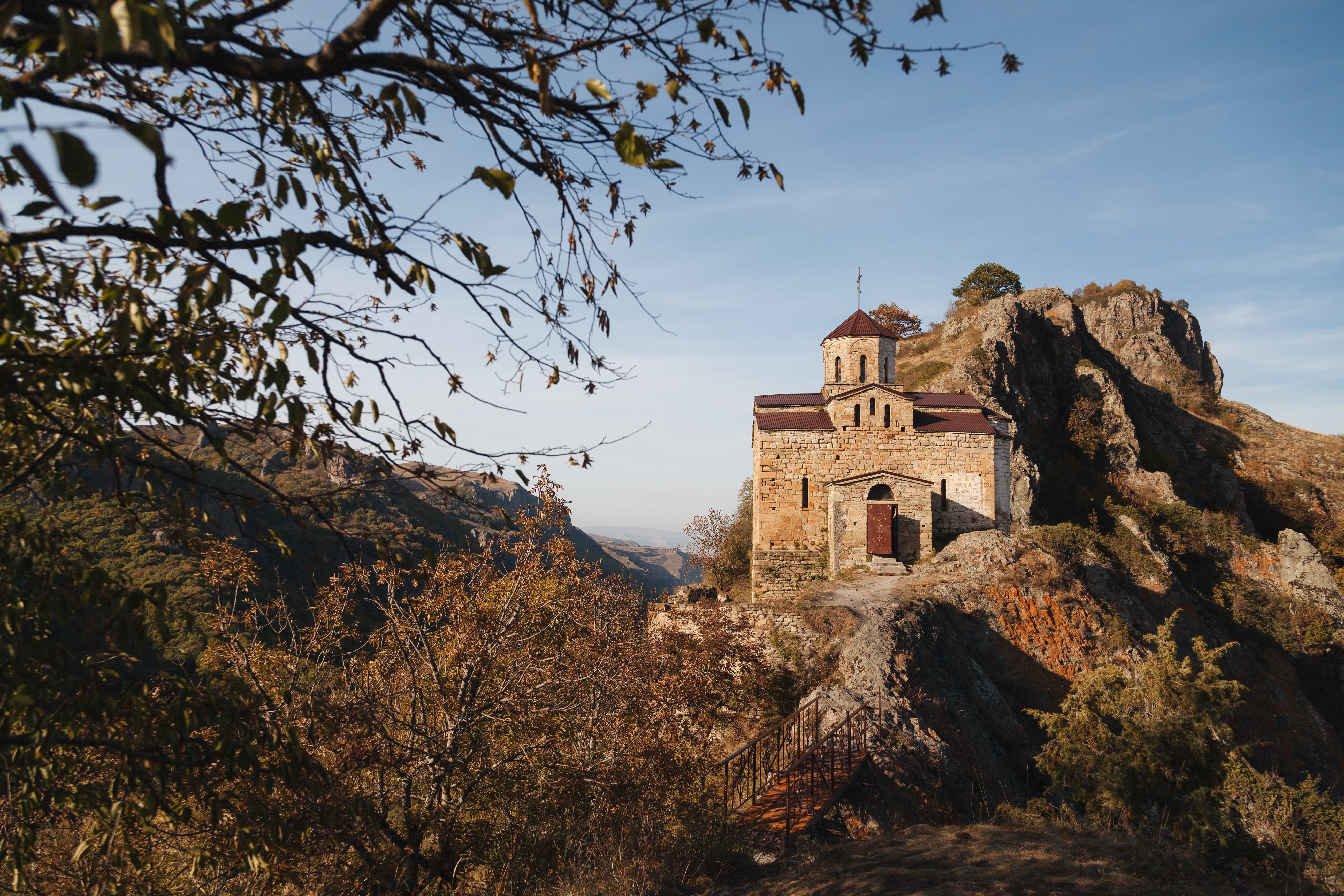 Shoana Church in the vicinity of the Kosta Khetagurov village, Karachay-Cherkessia, Russia